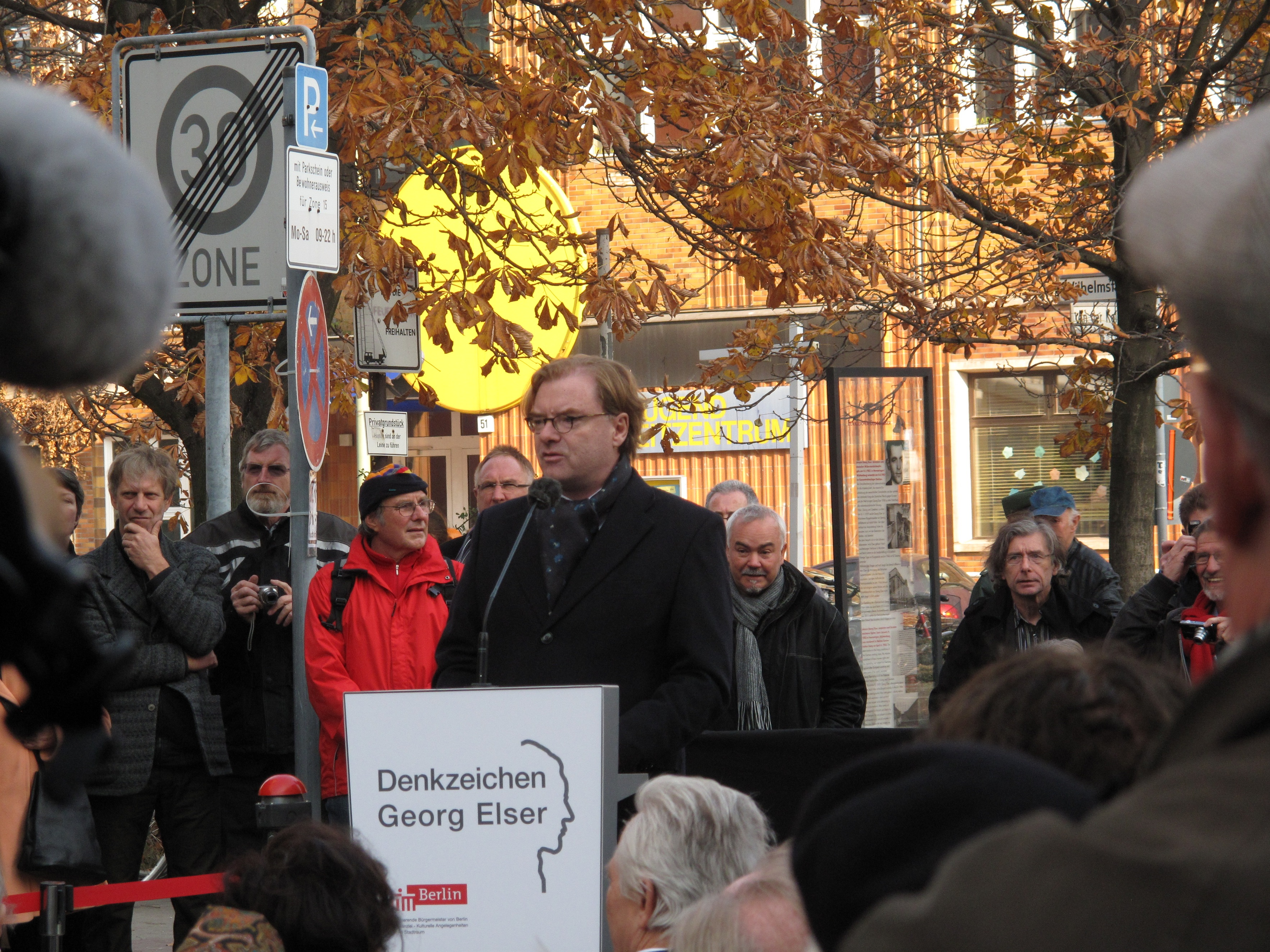 Berlin’s Secretary of State for Culture André Schmitz at the occasion of the official handing over of the sculpture Denkzeichen Georg Elser. The historical marker Denkzeichen Georg Elser is a sculpture in Berlin-Mitte commemorating to the German opponent of Nazism and Hitler-assassin Georg Elser. The 17-meter high sculpture was created by the artist Ulrich Klages and was opened to the public on 8 November 2011. It is situated at the corner Wilhelmstraße/An der Kolonnade and is completed by two quotes from Elser, that were set into the sidewalk, and by an information board.